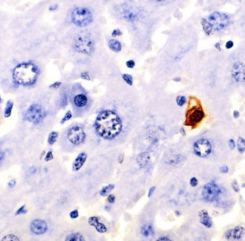 Section of mouse liver showing an apoptotic cell stained with terminal desoxyribosyl-transferase mediated dUTP end labelling stain